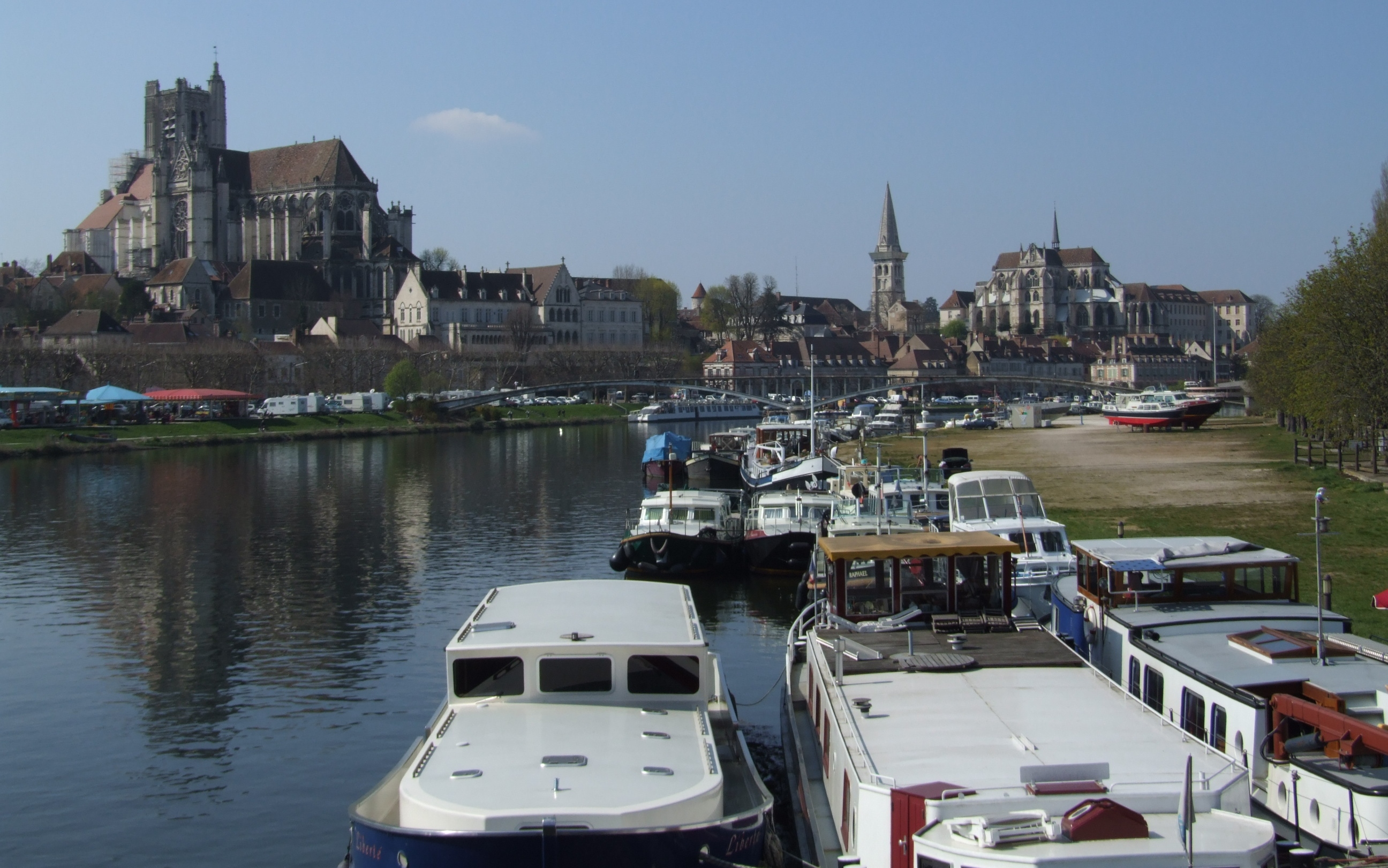 Auxerre, Burgundy, FRANCE